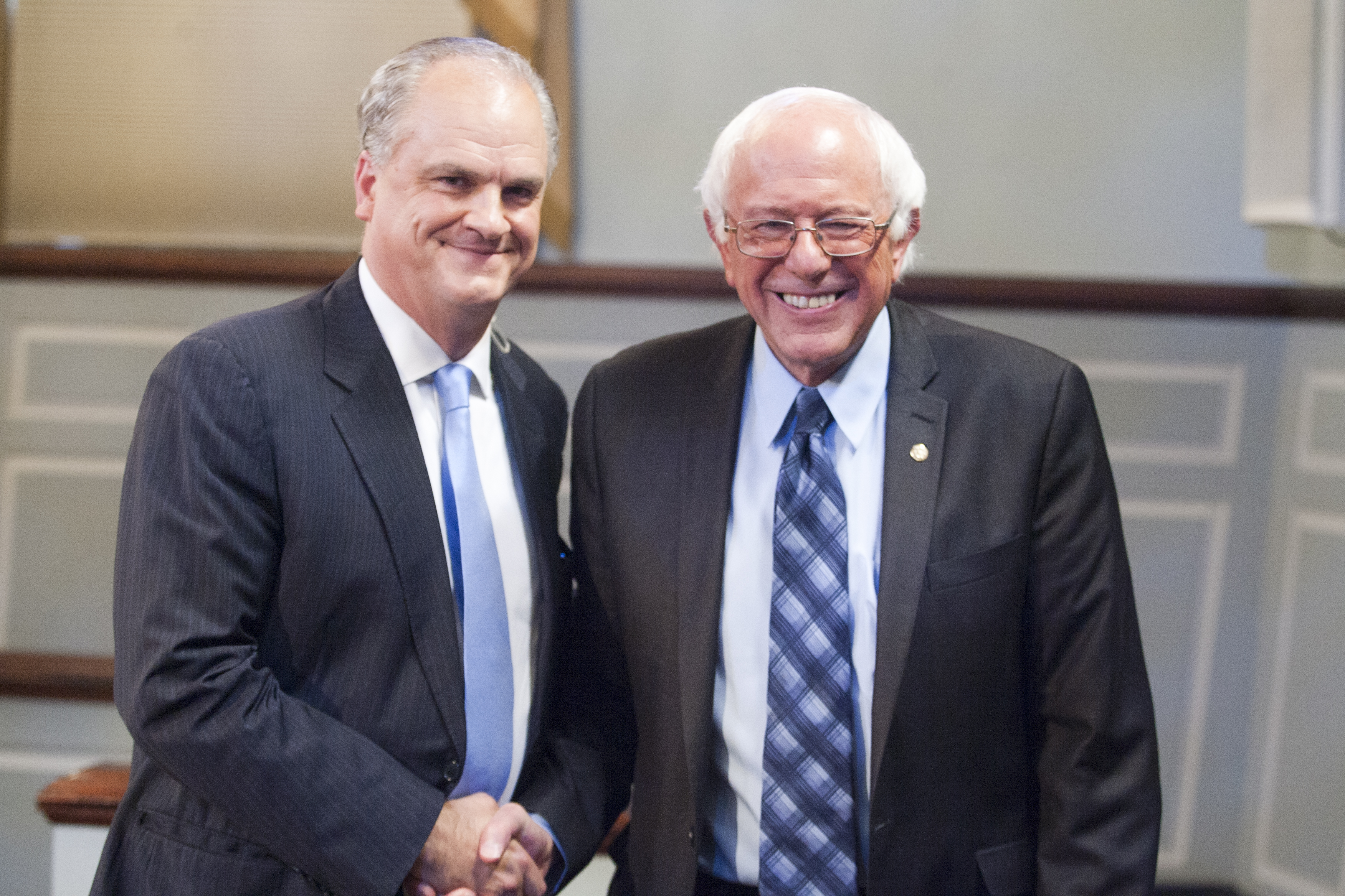 Doug Blackmon, Sen. Bernie Sanders, A Conversation with Bernie Sanders